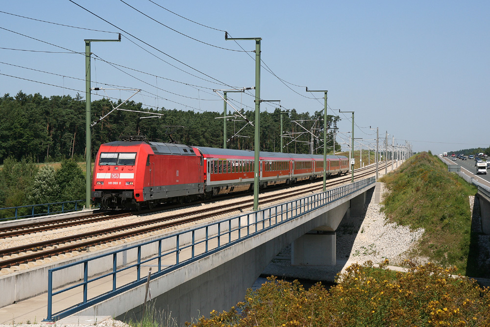 Main-Danube Canal bridge of the Nuremberg-Ingolstadt high-speed railway line